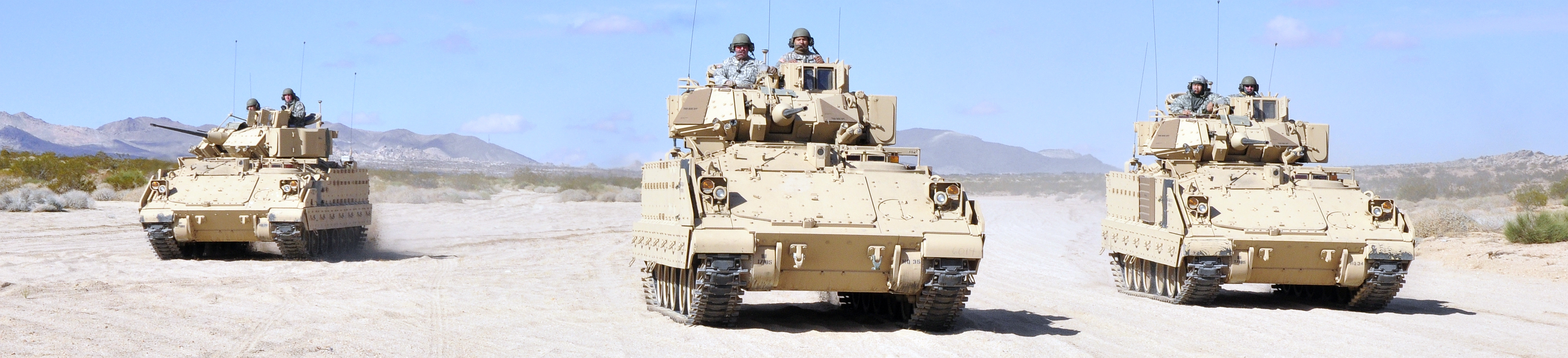 Soldiers of the 1st Battalion, 185th Armor (Combined Arms Battalion) maneuver in a "wedge formation" in Bradley Fighting Vehicles at Fort Irwin National Training Center.